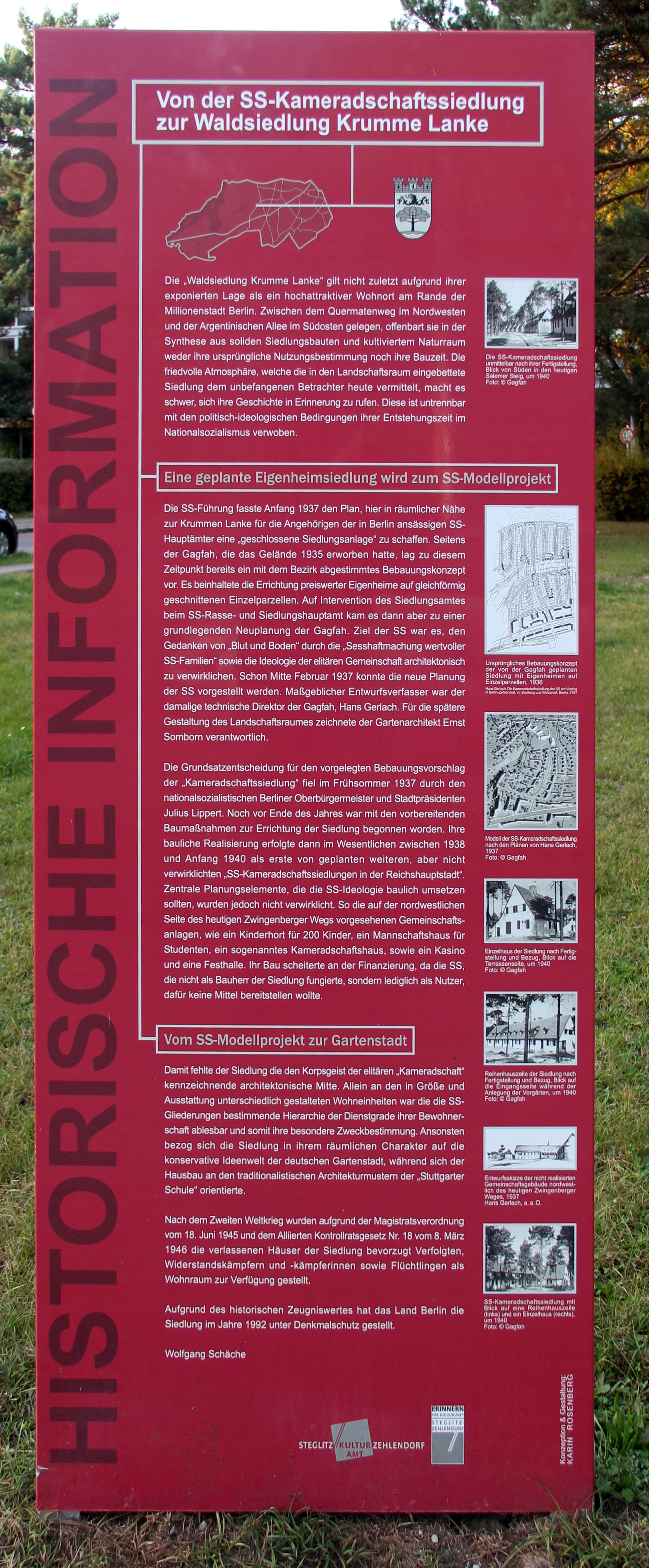 Memorial plaque, SS-Kameradschaftssiedlung, Argentinische Allee/Teschener Weg, Berlin-Zehlendorf, Germany